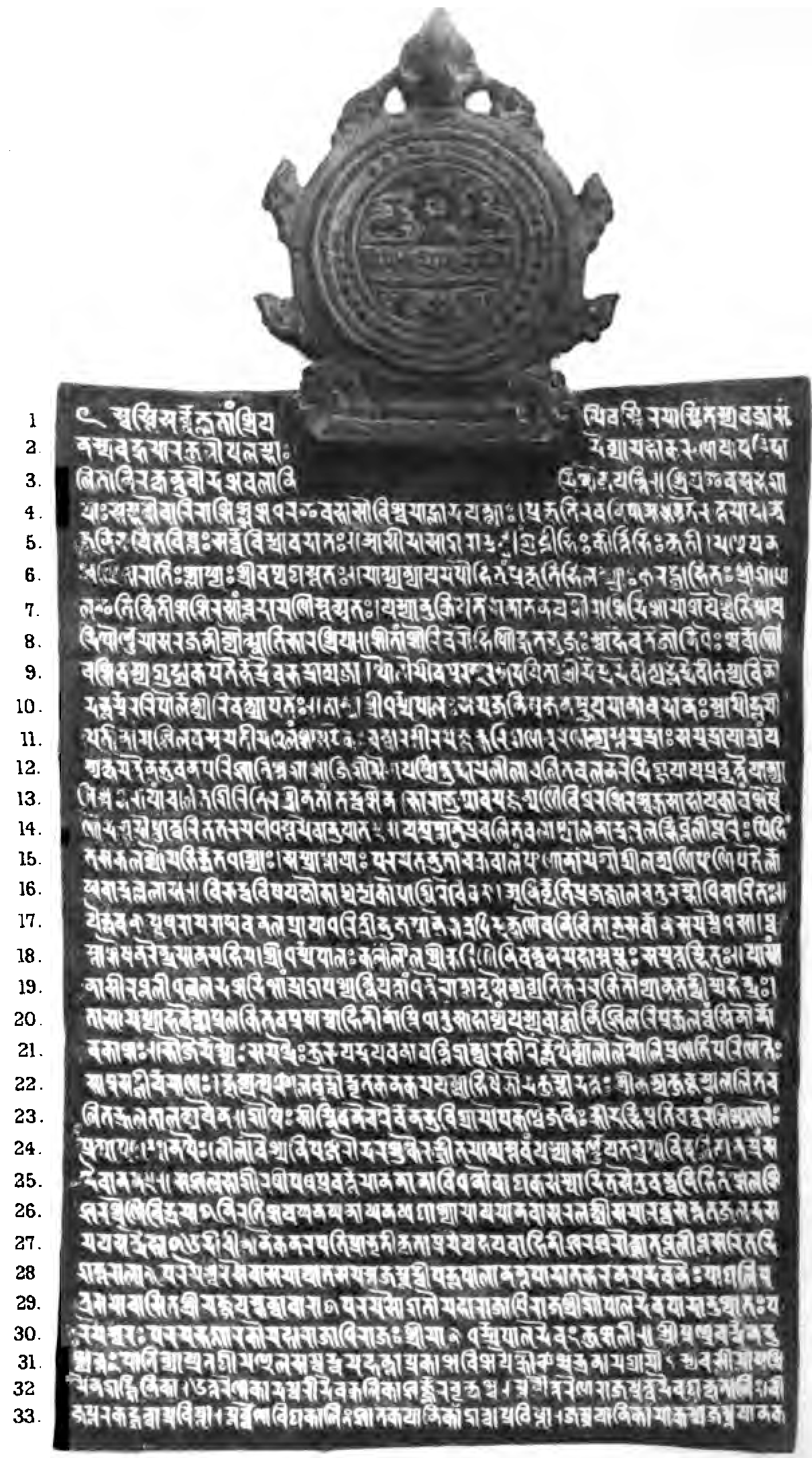 Khalimpur copper plate inscription of Emperor Dharmapala, early ninth century